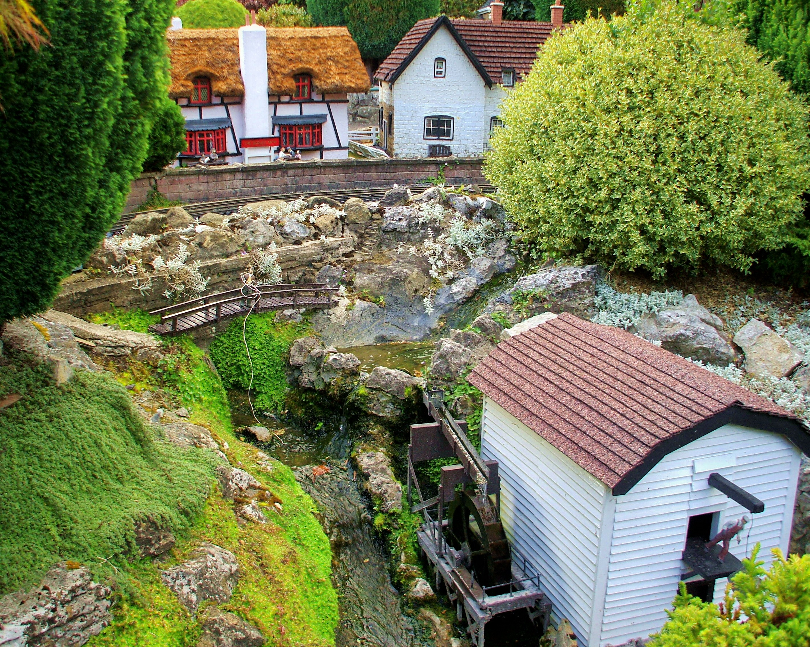 Watermill at Bekonscot model village, Beaconsfield, Buckinghamshire.